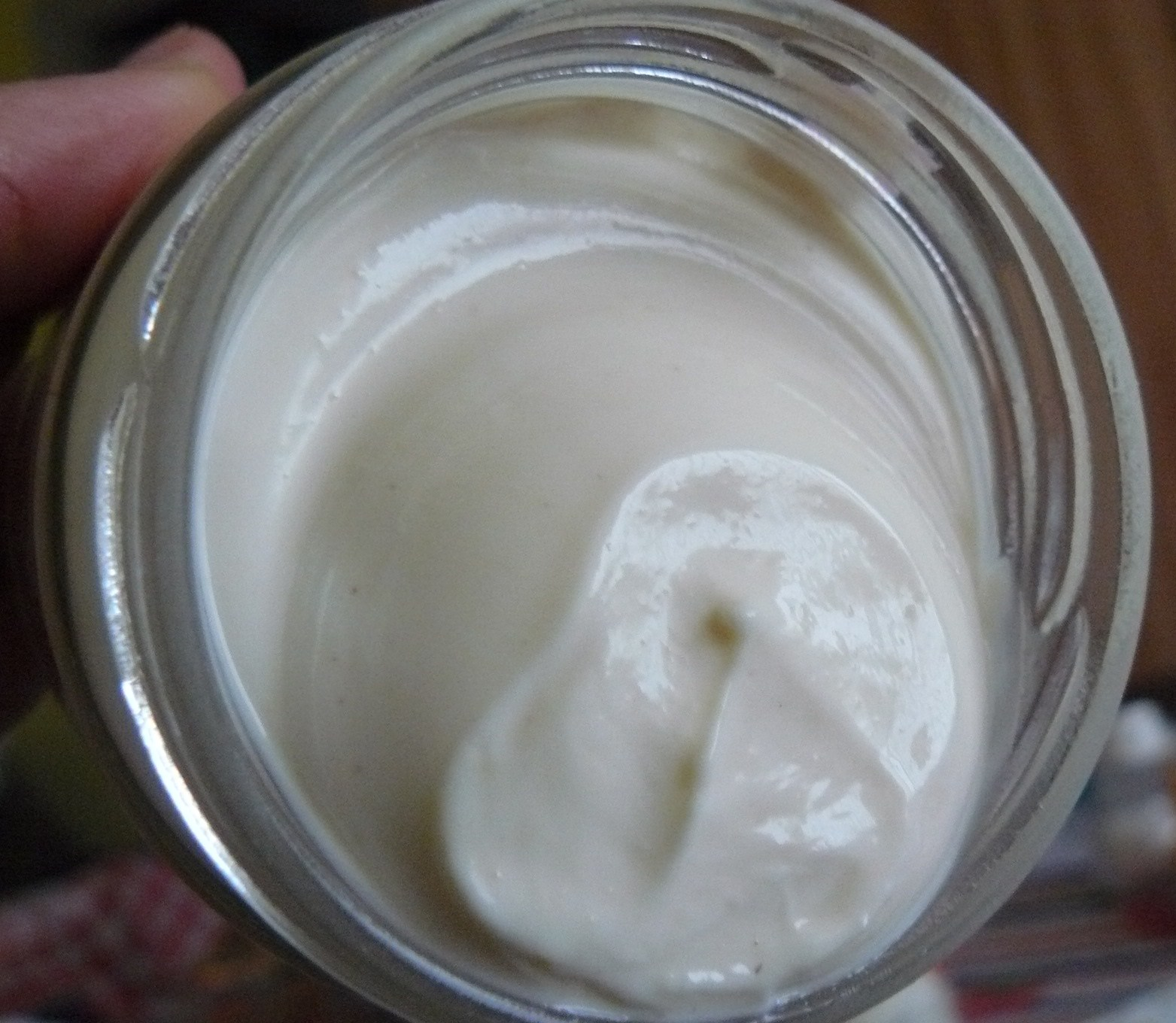 Mayonnaise Pegasus from Poznań. Mayonnaise produced for many decades.